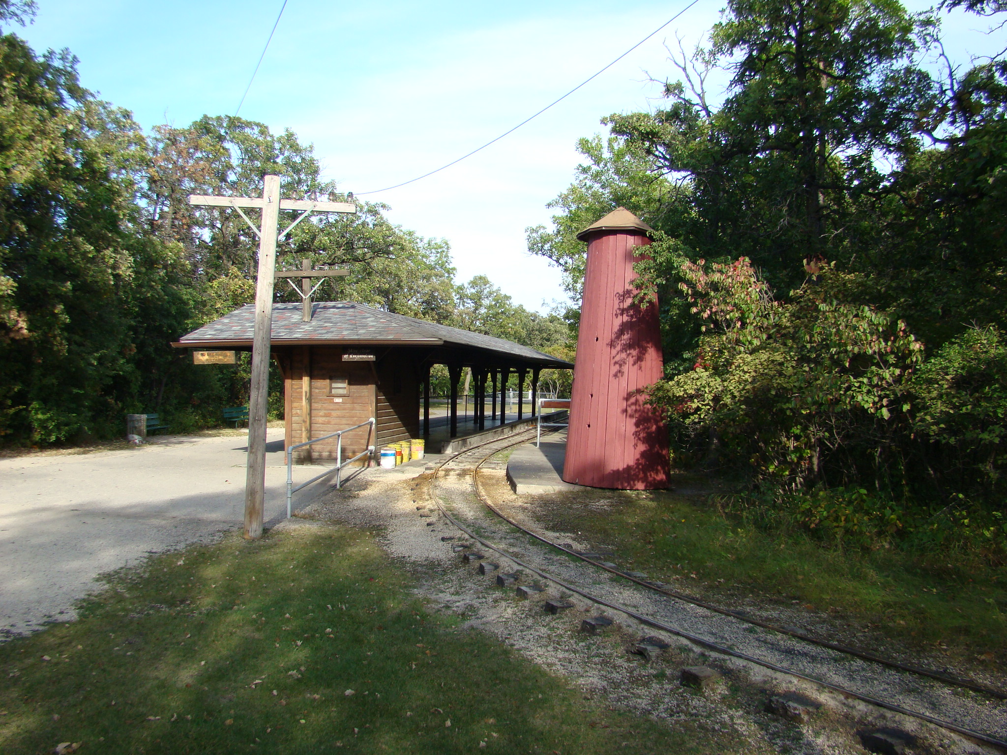 Assiniboine Park Winnipeg Manitoba Canada